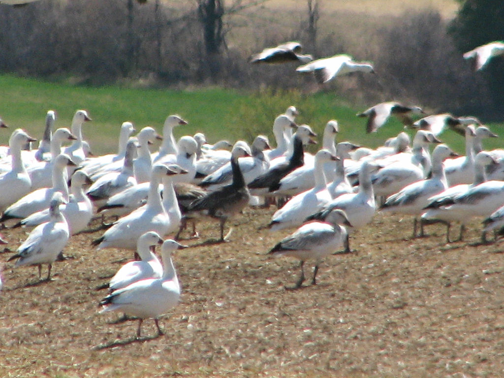 Greater Snow Geese (Anser caerulescens), white and blue morphs, Alexandria, Ontario